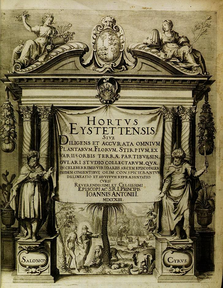 Title of "Hortus Eystettensis"